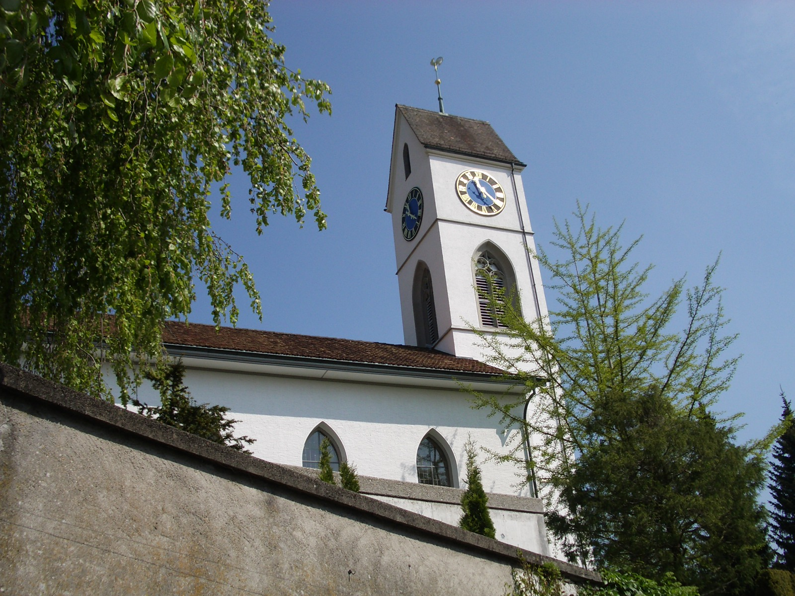 Dielsdorf ZH, Switzerland